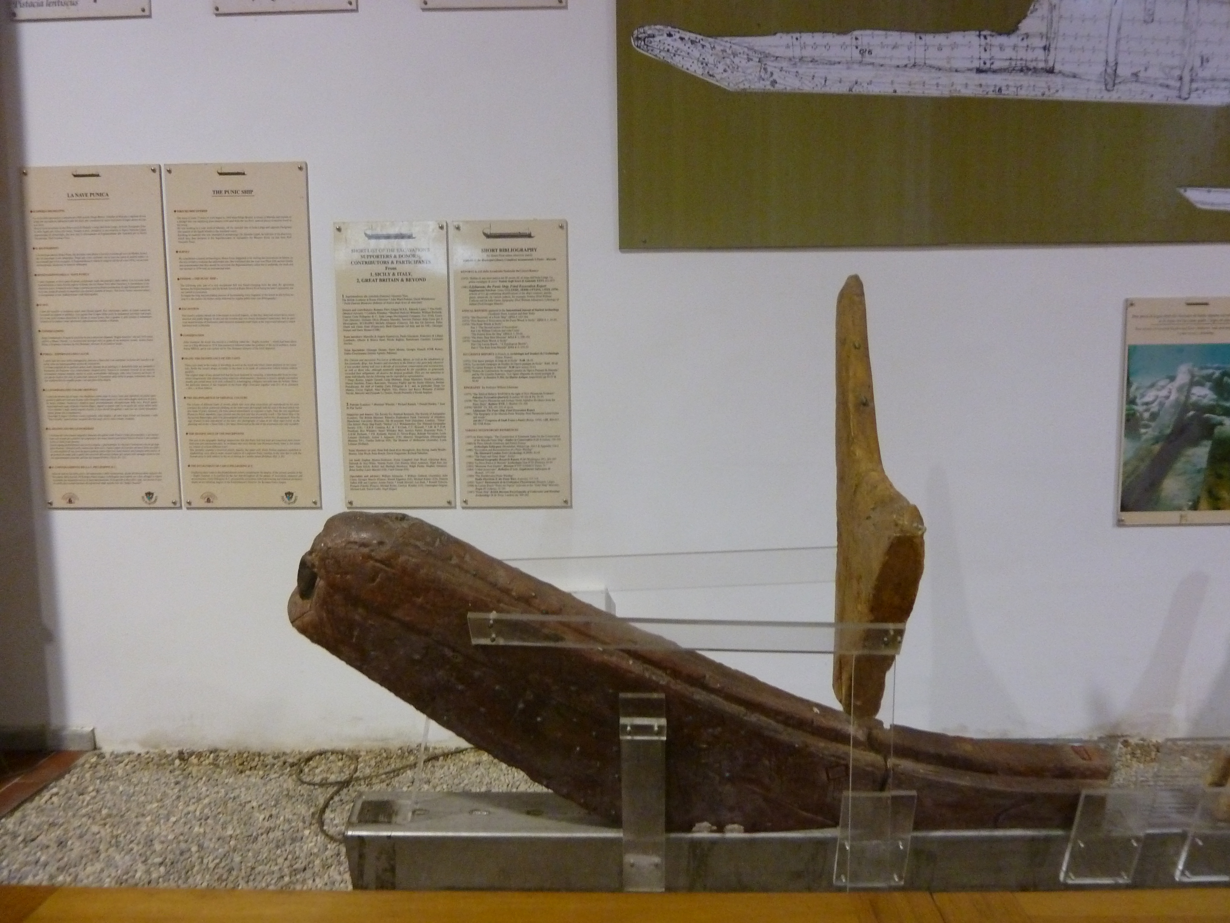 Keel of a Punic ship found off Marsala, Sicily